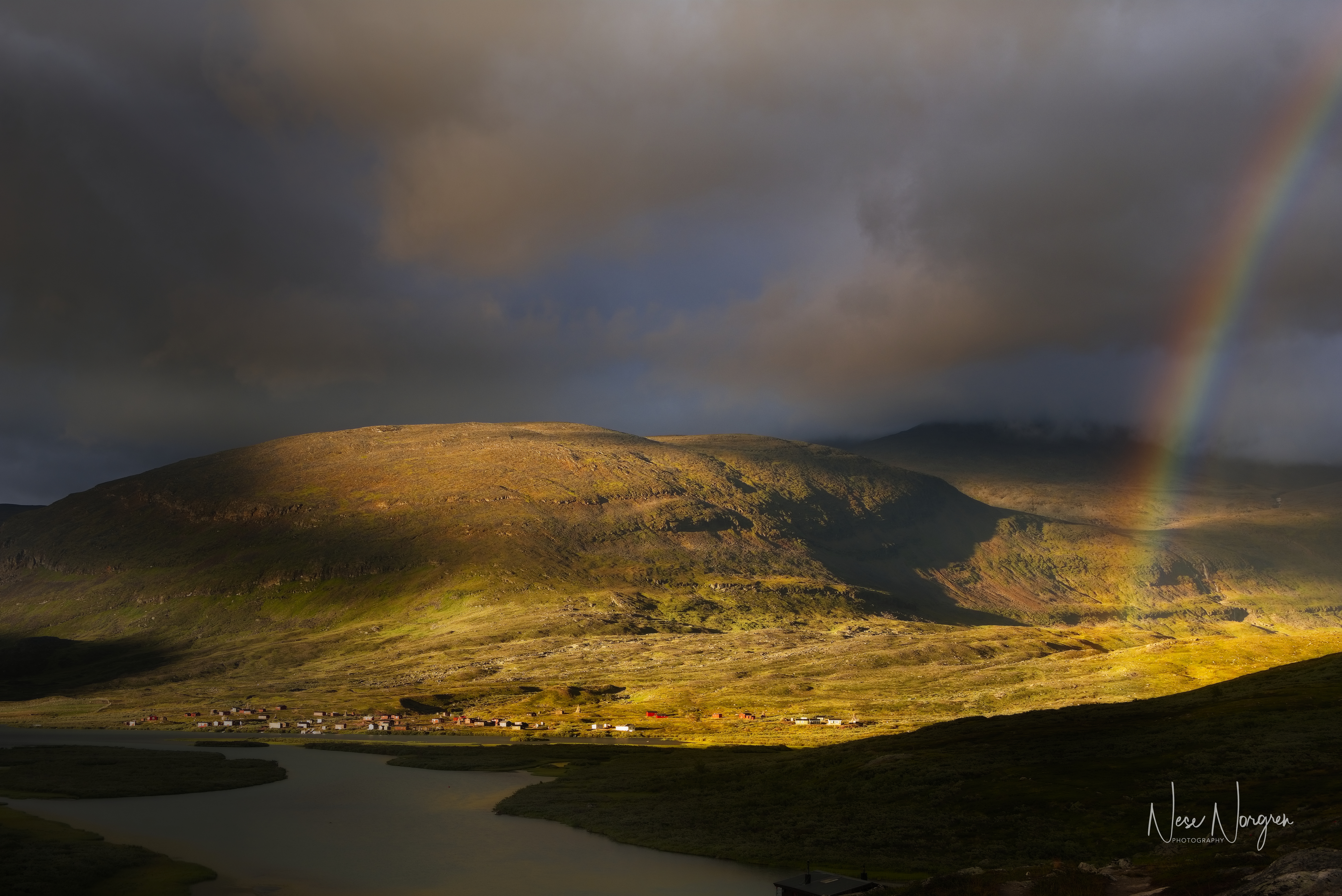 Sami village in Laponia / Alesjaure